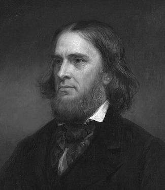 Portrait of Benjamin Peirce